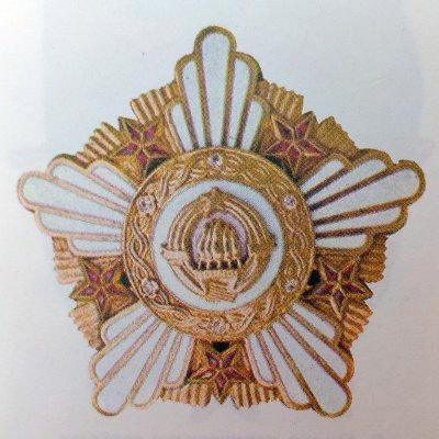 Order of the Socialist Federal Republic of Yugoslavia for civil merits.